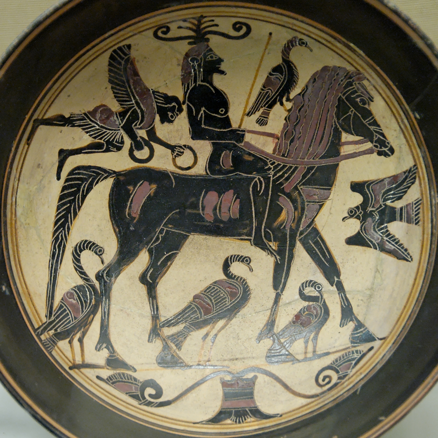 Rider with birds and a winged figure, perhaps Nike (Victory). Lakonian black-figured kylix, ca. 550–530 BC.